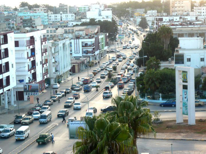 Al Oroba Street in Al Bayda city (Libya) .